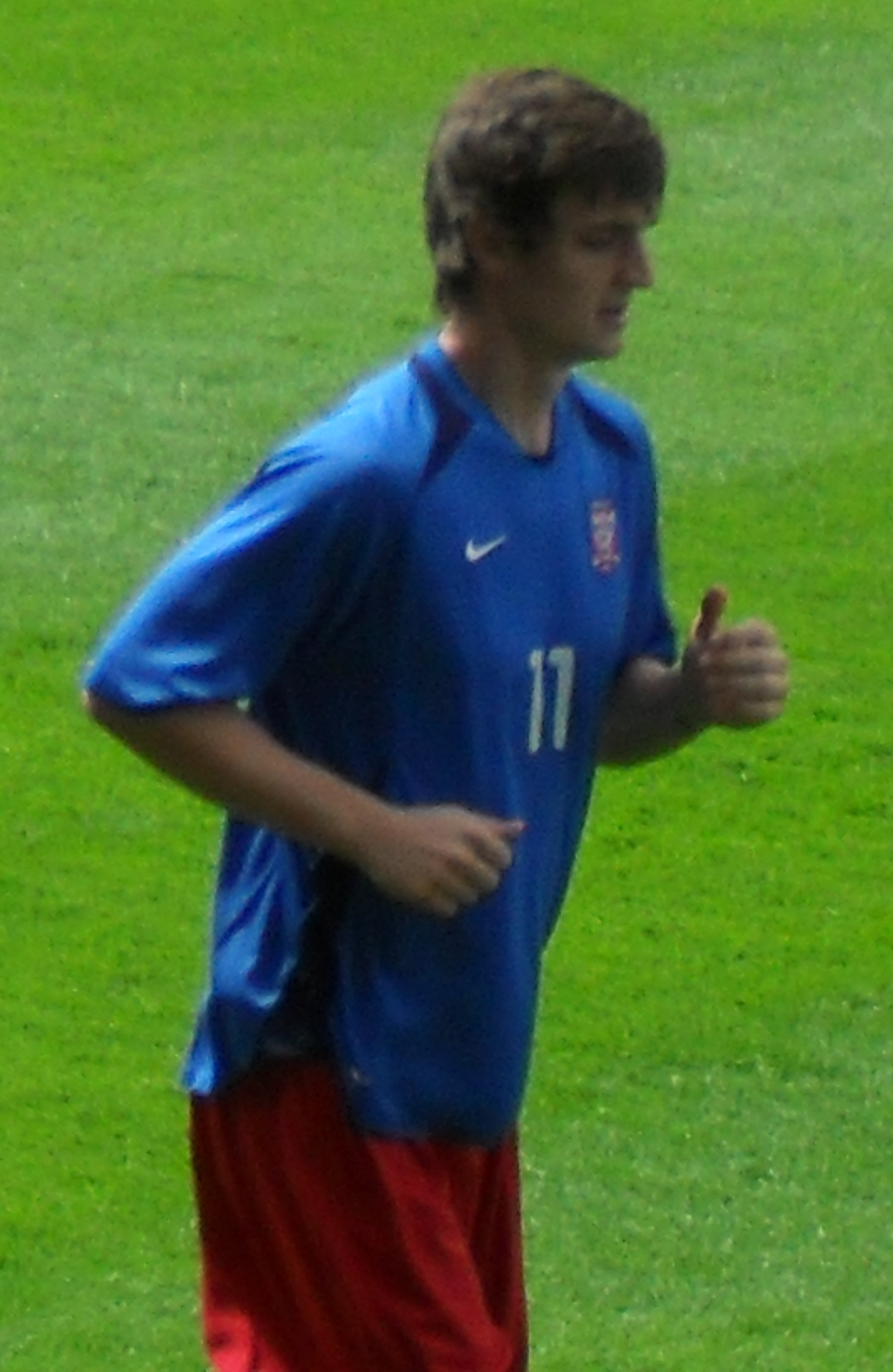 Luke Waterfall warming up for York City against Bradford City at Bootham Crescent, York on 18 July 2009